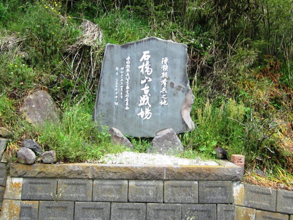 Ishibashiyama Historic Battlefield in Odawara, Kanagawa.